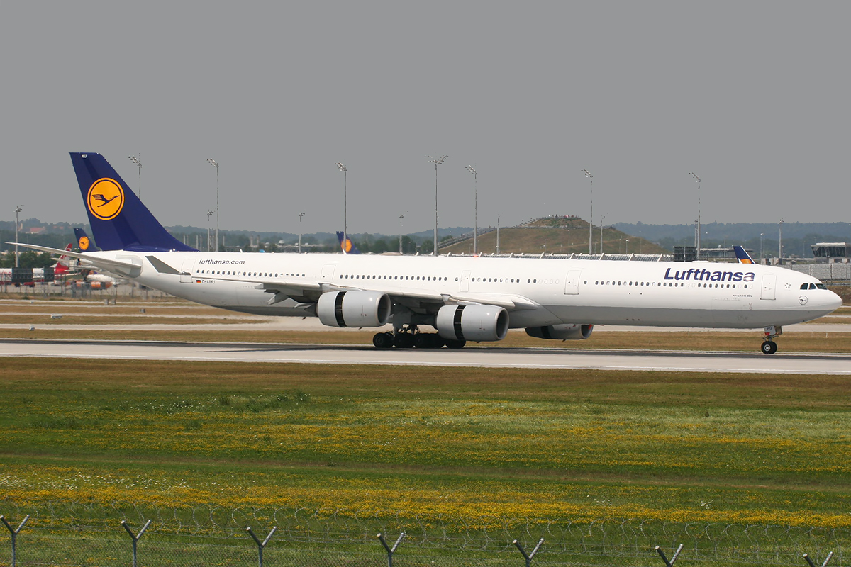 Munich (EDDM/MUC) Airport